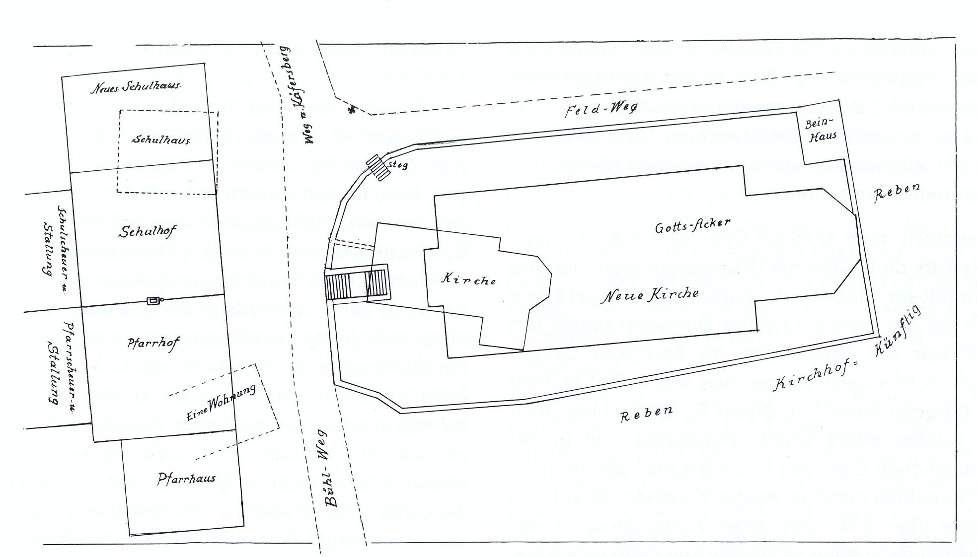 ground plan of Bühlwegkapelle and surroundings in Ortenberg, Baden-Württemberg, Germany